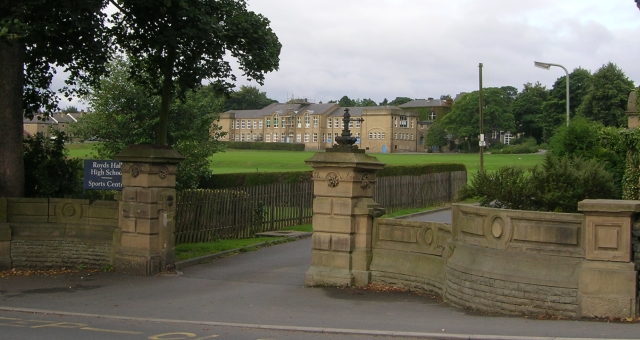 Royds Hall High School. Royds Hall High School, Paddock, Huddersfield. Subject GR: SE122164. Observer GR: SE124165.